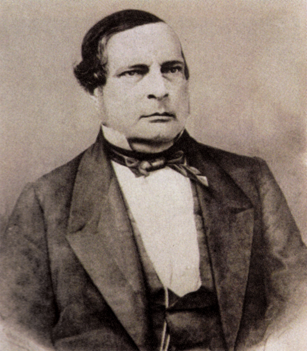 Former president of Argentina, Santiago Derqui.